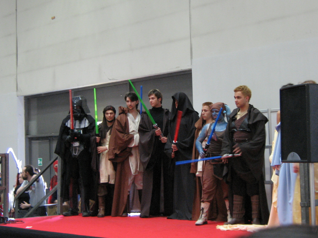 Star Wars cosplayers during Torino Comics 2006 competition.